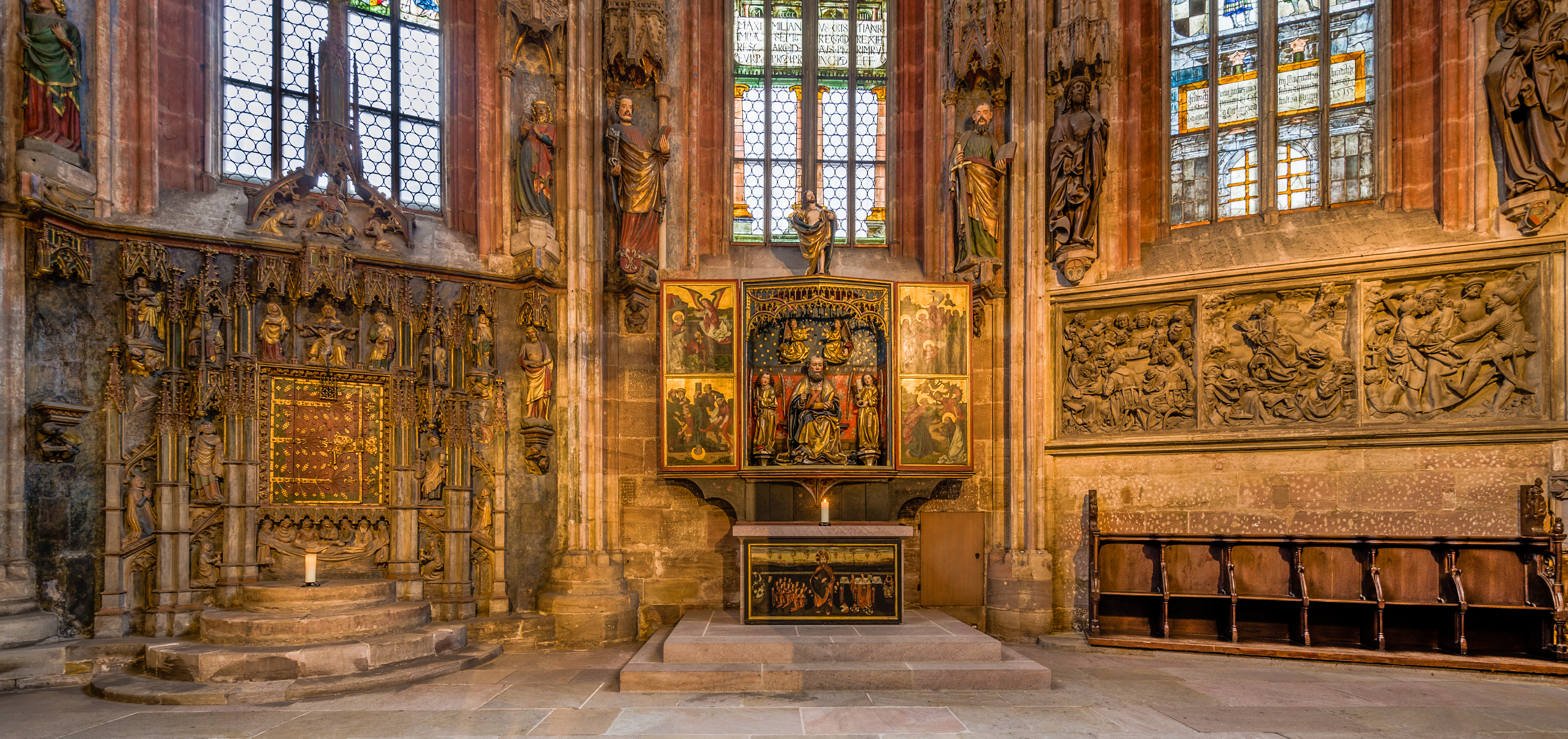 Altar of Peter in Sebaldus Church in Nuremberg